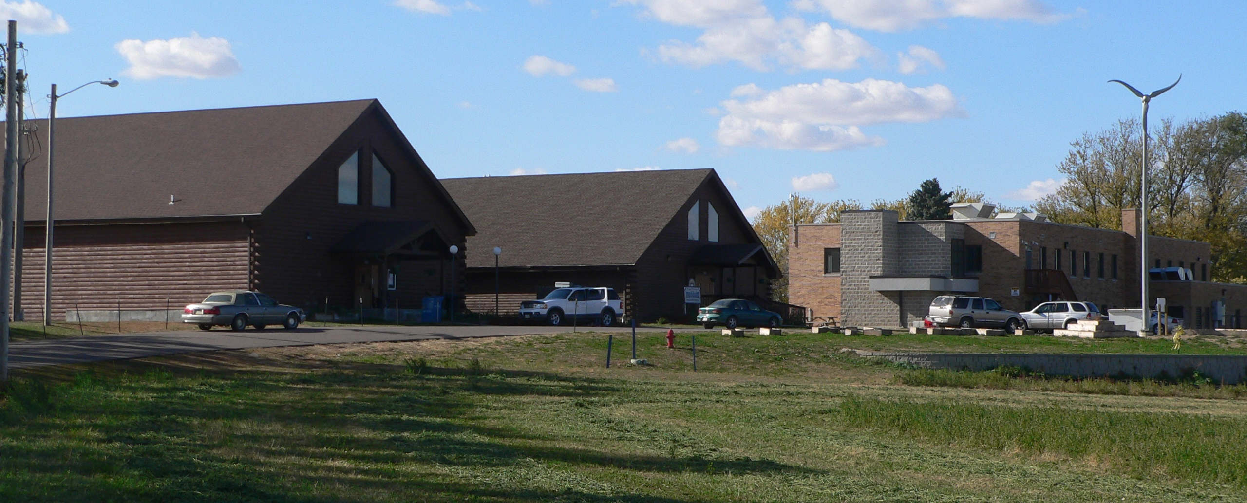 Little Priest Tribal College, located in Winnebago, Nebraska.